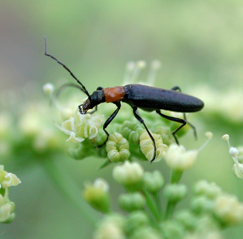 Closeup of a beetle pollinating parsley